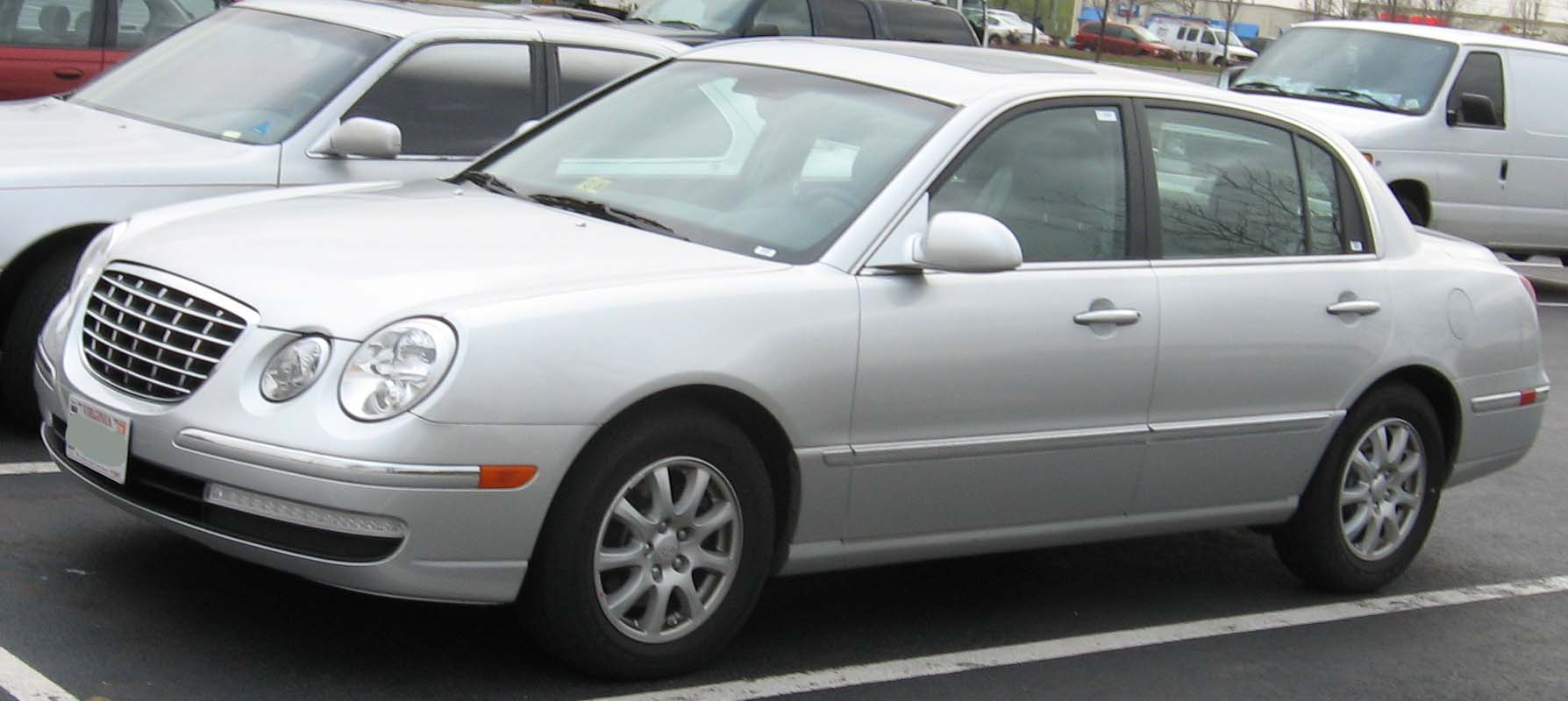 2007 Kia Amanti photographed in USA.